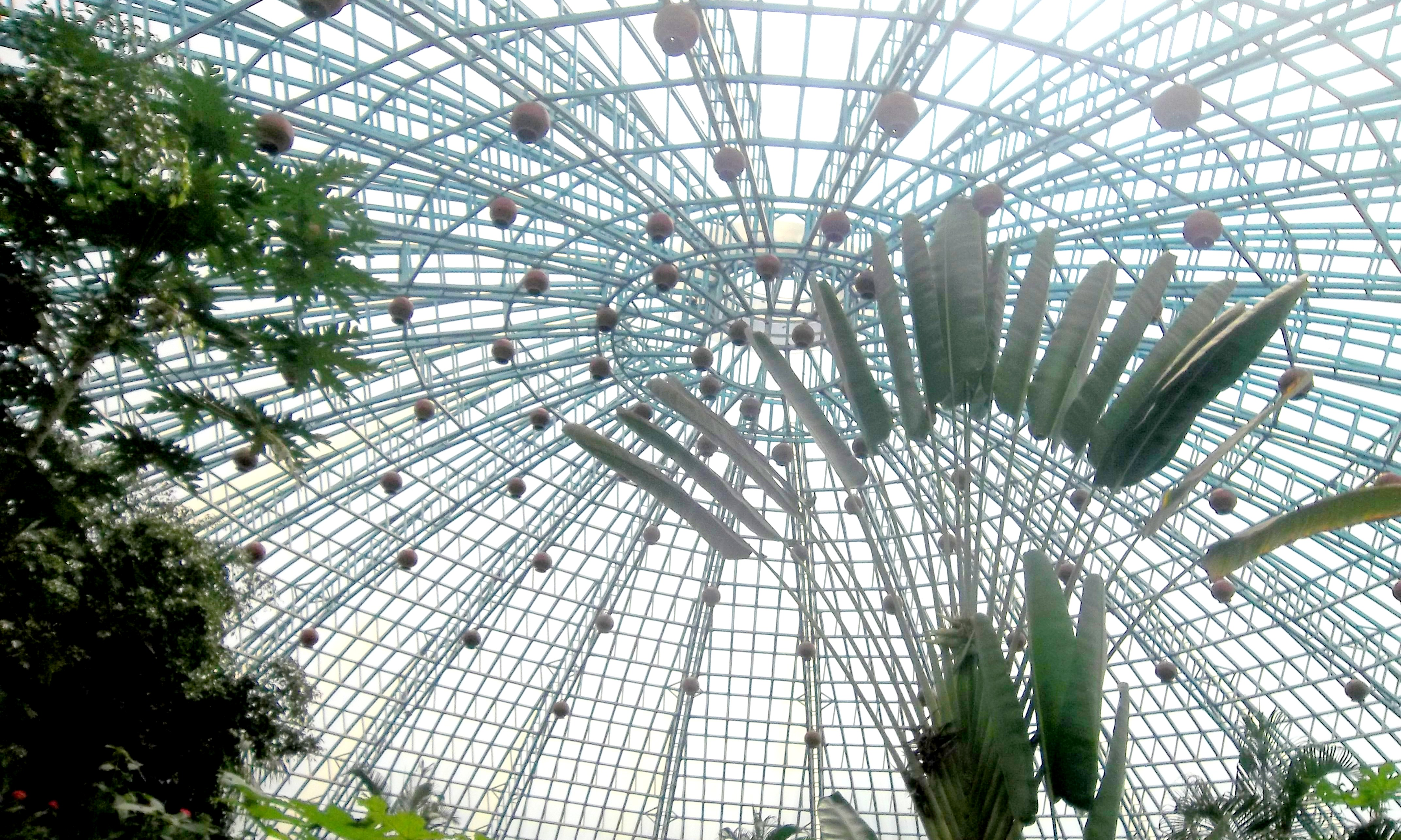 Upside of BP